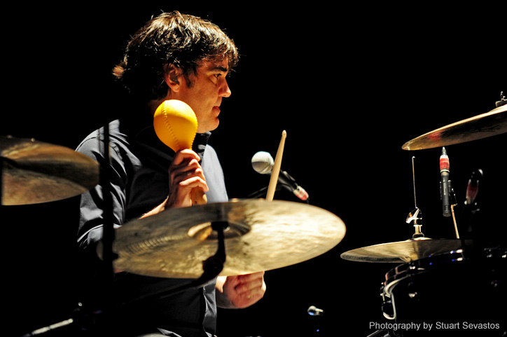 Spoon @ Astor Theatre (14/5/2010)